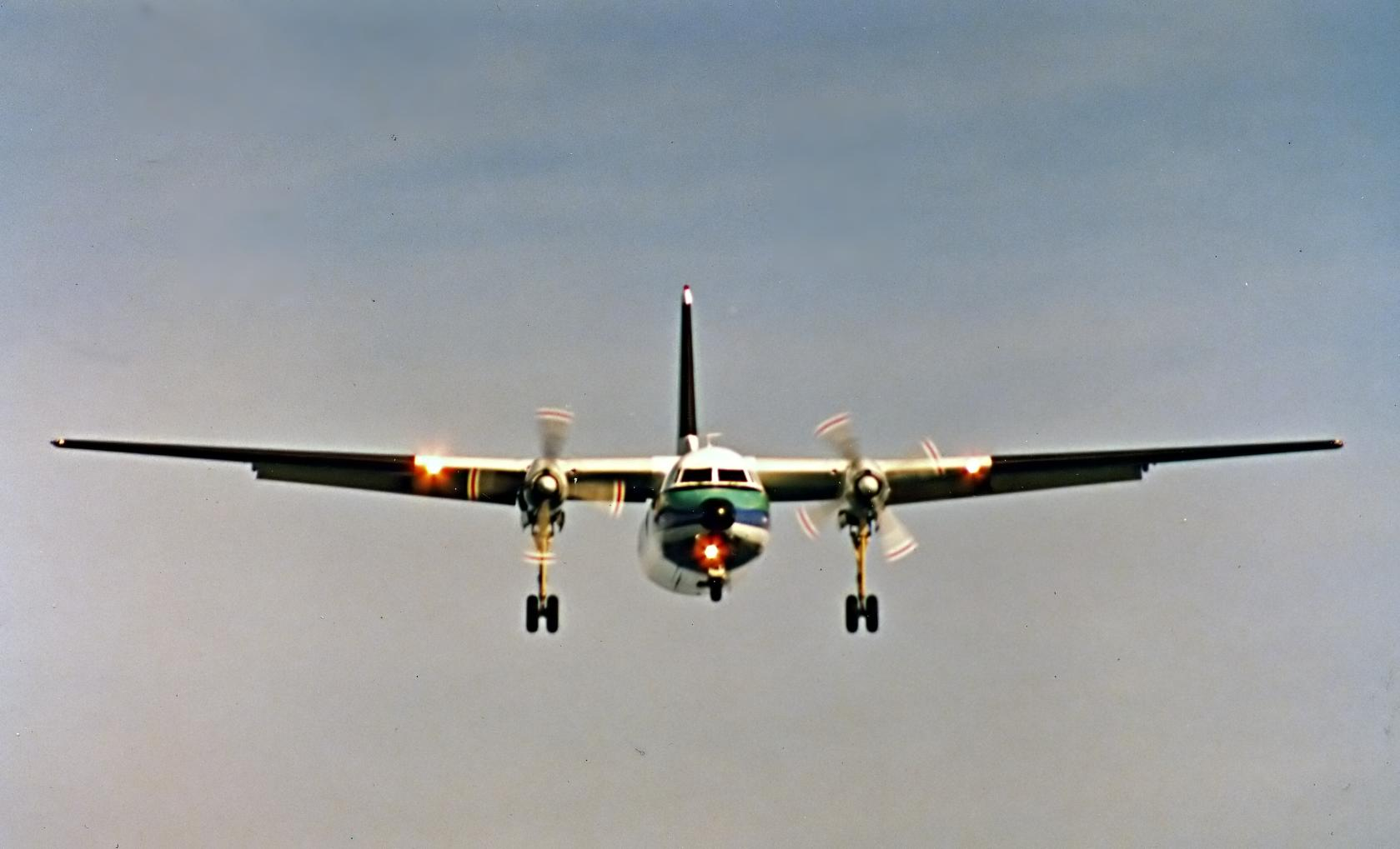 At Westport the daily flight was always a big moment, but the reason I took this shot was that it was the first Friendship to arrive in Air New Zealand colours following the merger of NAC.